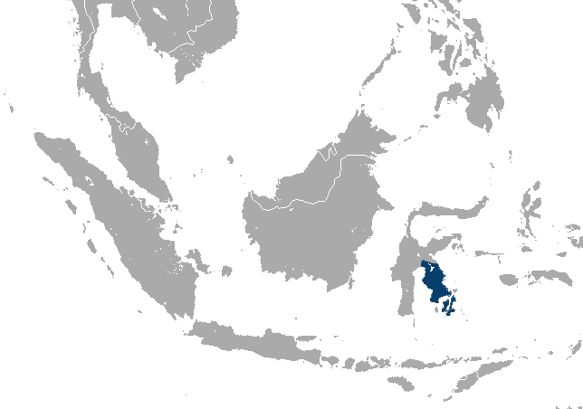 Booted Macaque (Macaca ochreata) range